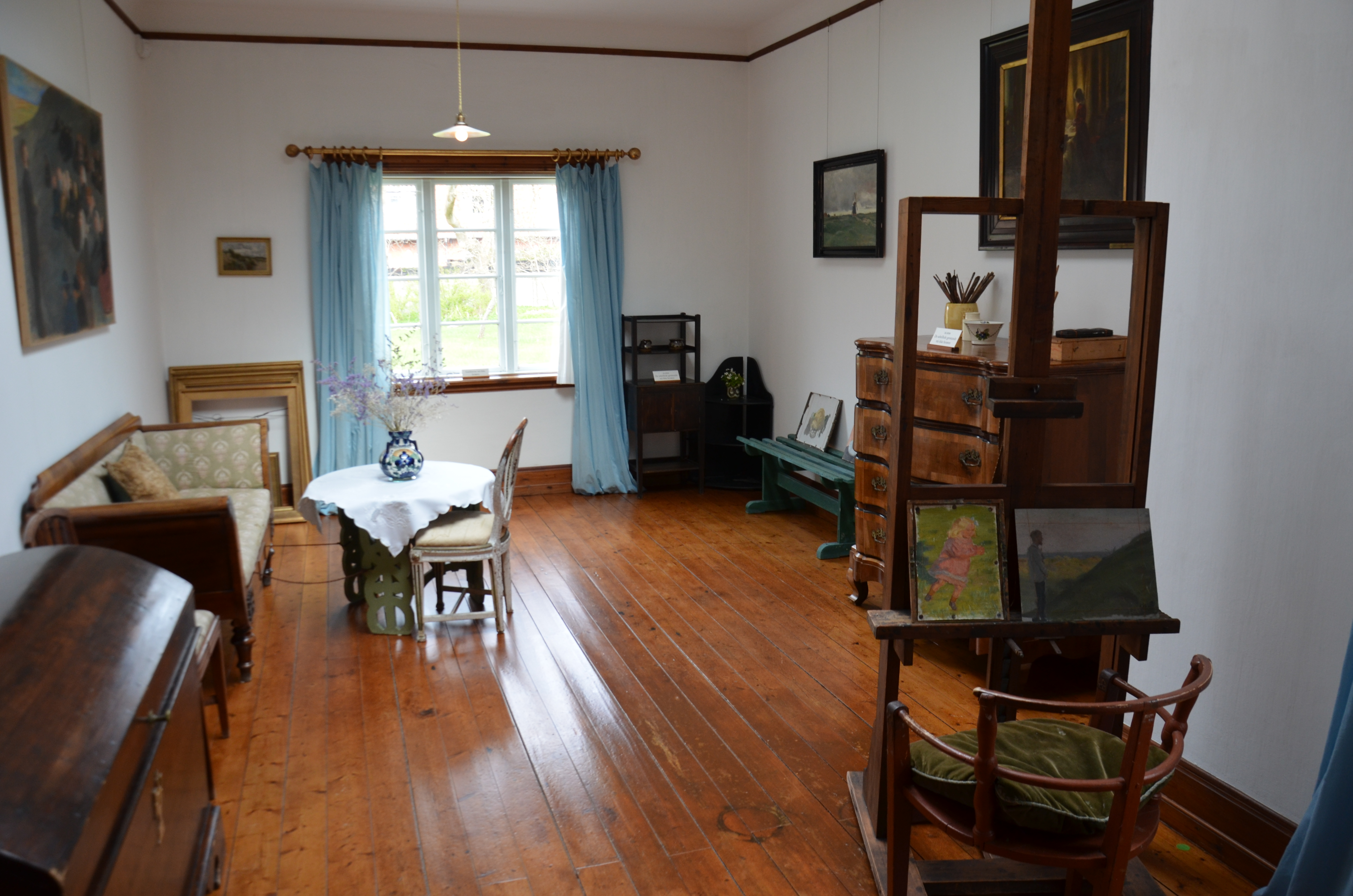 Michael og Anna Anchers hus i Skagen, ateljé